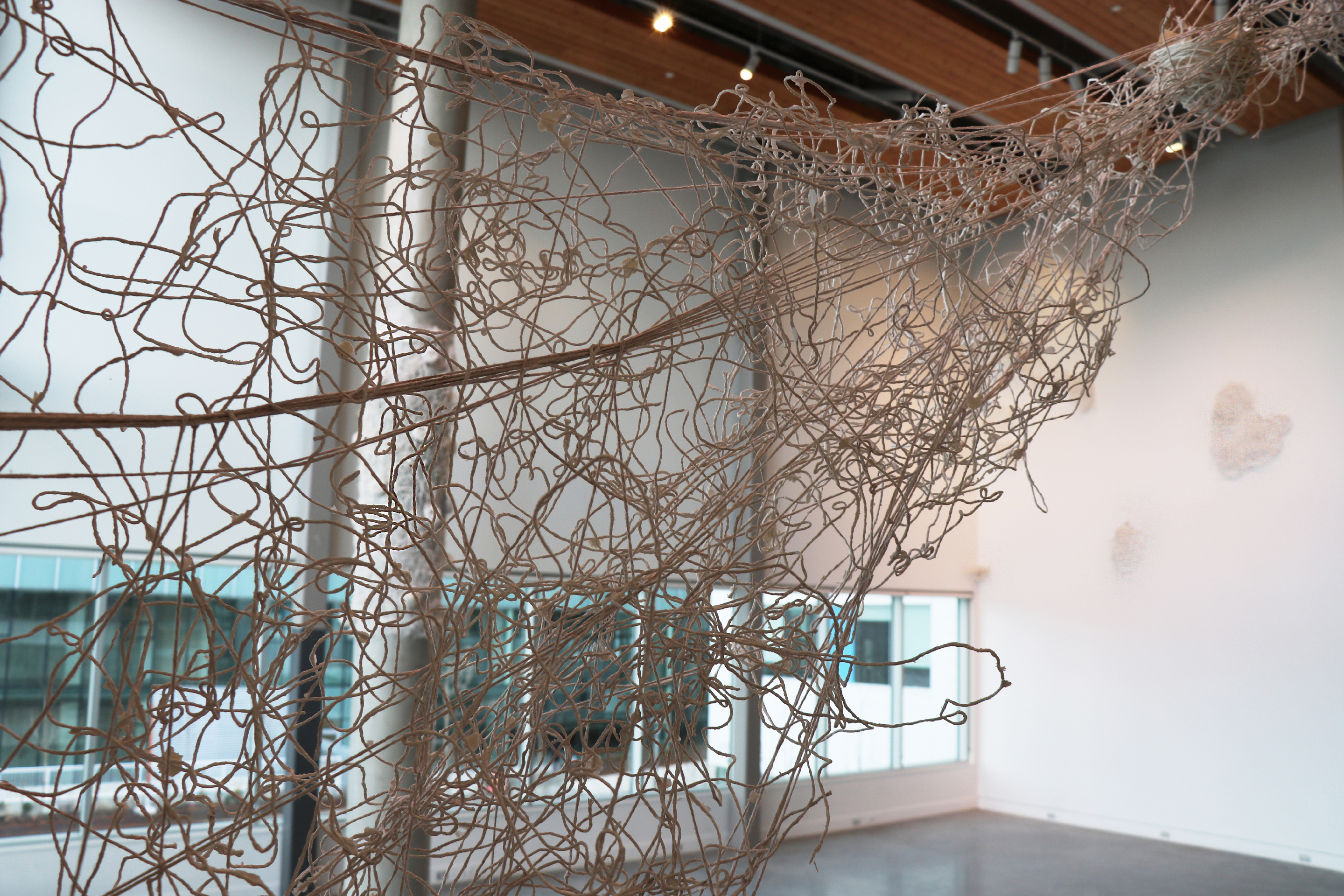 Hidden in Plain Site is a site-specific installation that discusses the imaginary temporary habitats found in our environment.